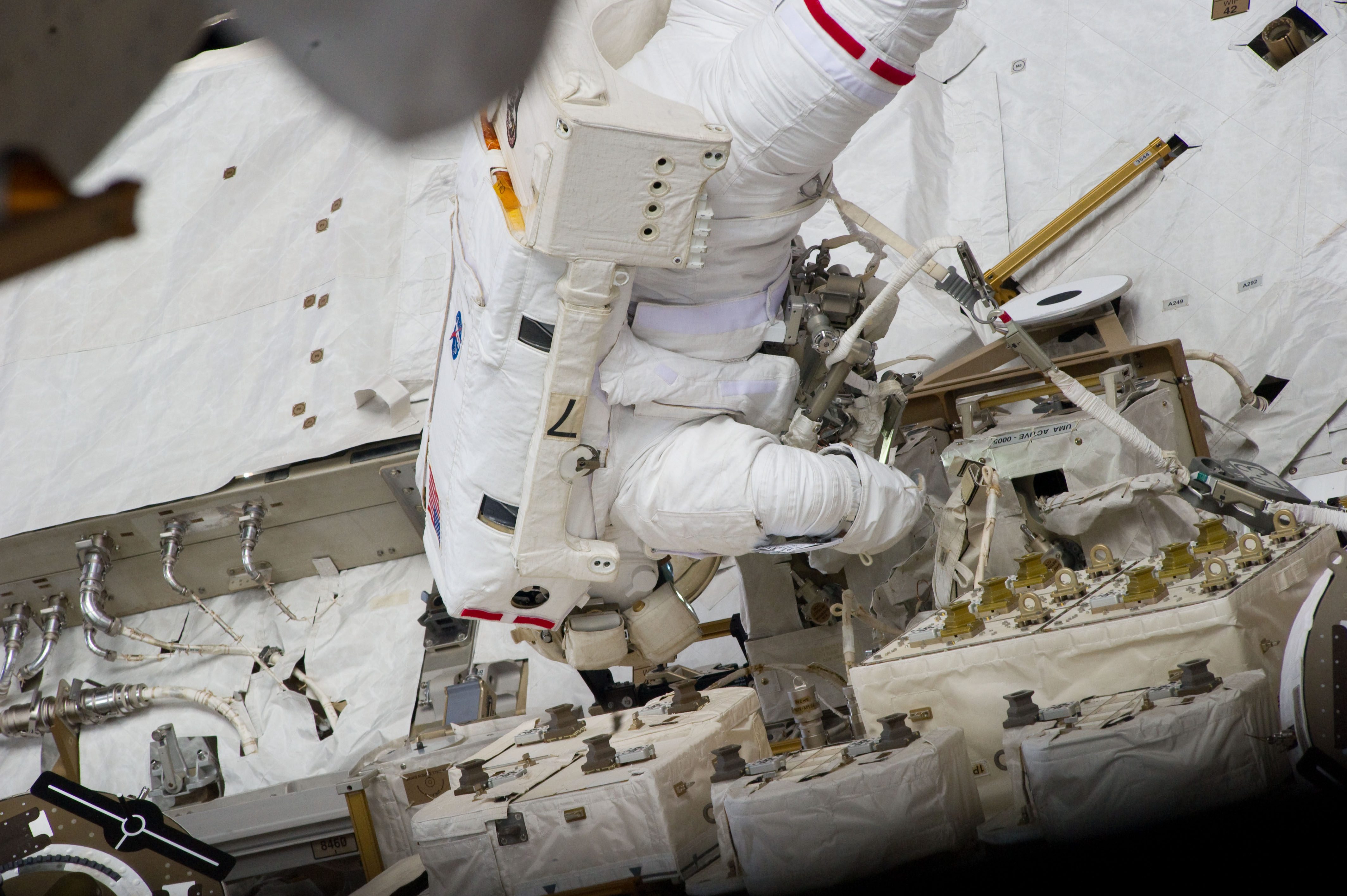 NASA astronaut Greg Chamitoff participates in the mission's fourth session of extravehicular activity (EVA) as construction and maintenance continue on the International Space Station. During the seven-hour, 24-minute spacewalk, Chamitoff and astronaut Michael Fincke (out of frame), both STS-134 mission specialists, completed the primary objectives for the spacewalk, including stowing the 50-foot-long boom and adding a power and data grapple fixture to make it the Enhanced International Space Station Boom Assembly, available to extend the reach of the space station's robotic arm.